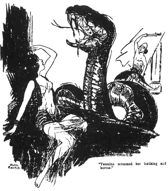 Illustration of a scene in the last part of Robert E. Howard's "The People of the Black Circle": this part of the story and illustration was first published in Weird Tales (November 1934, vol. 24, no. 5).